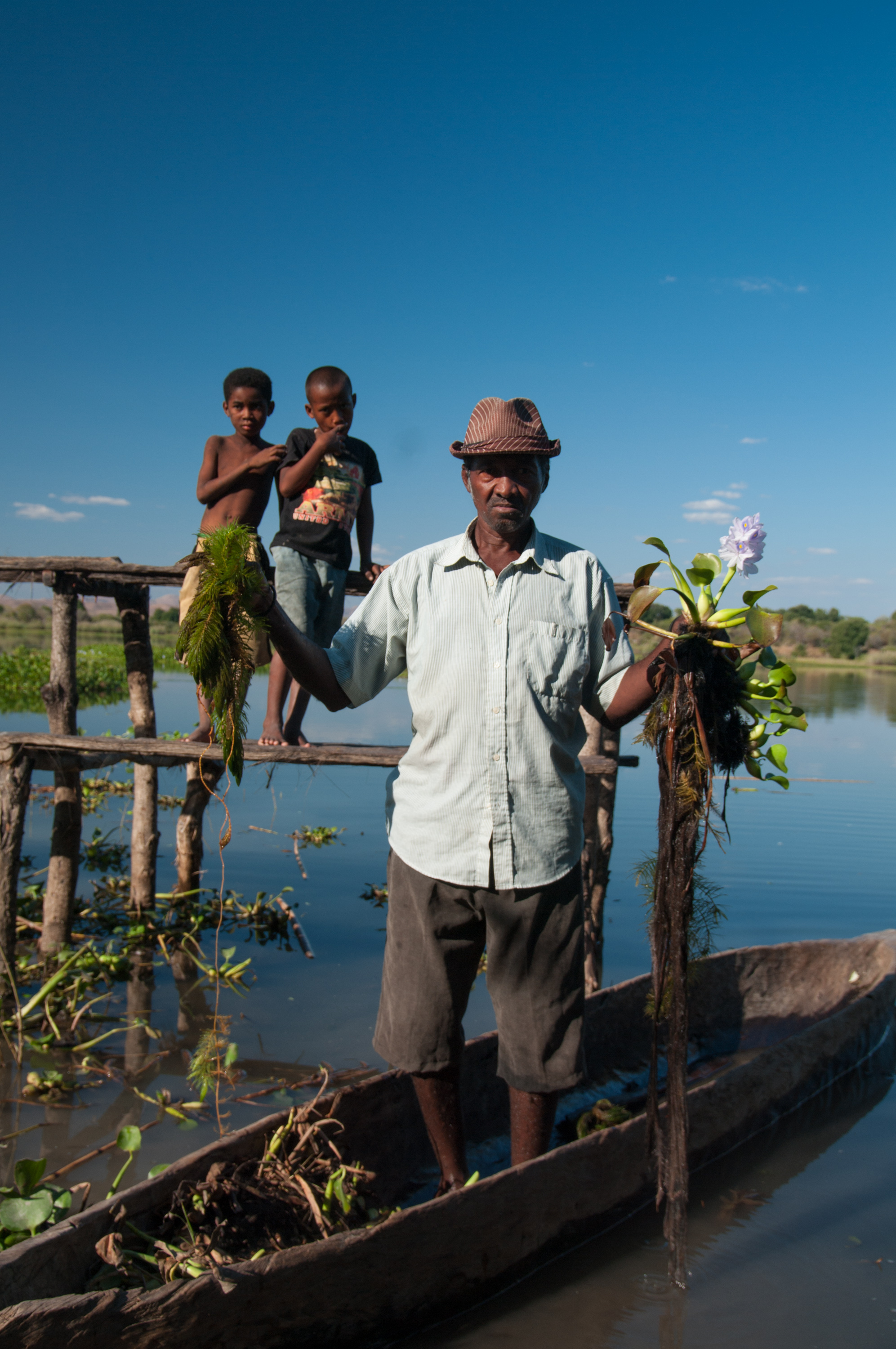 Fisherman with Eichhornia crassipes and another weed which is slowly covering the local lake. Taken in Manambina (Madagascar, Menabe district)